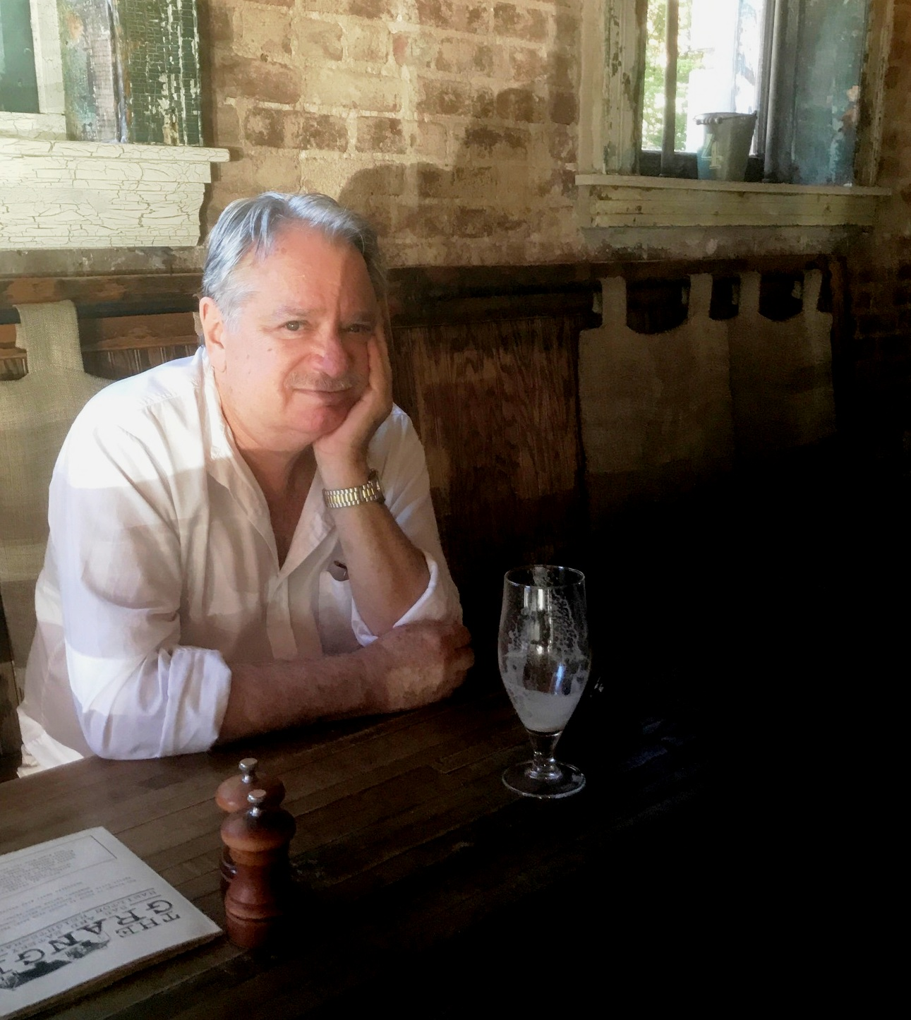 John Balaban in New York City, 2017.